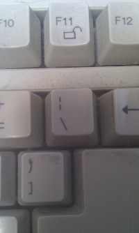 The pipline, pipe or vertical bar key on a computer keyboard.